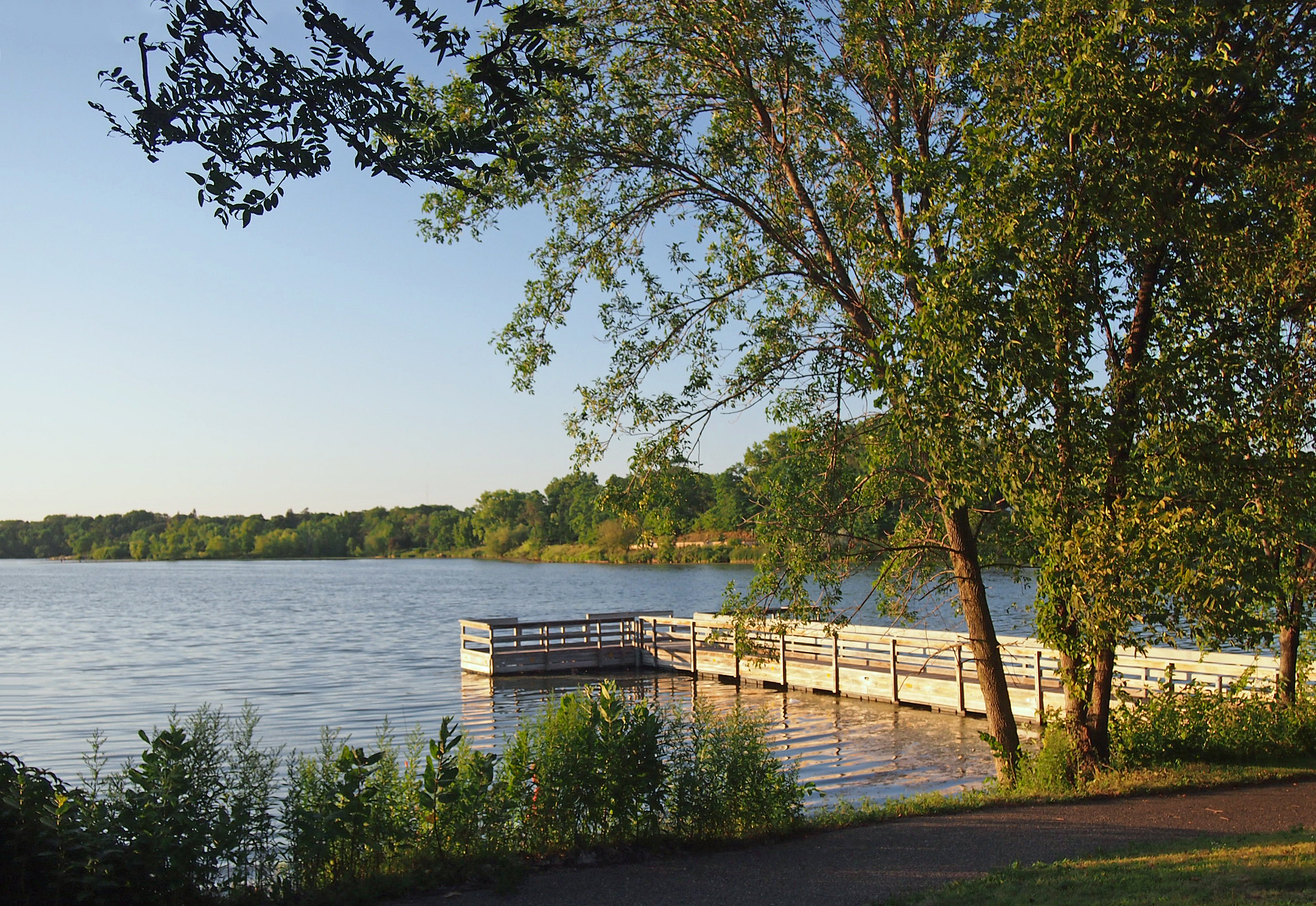 Fishing pier at south end of Lake Como, Como Regional Park, St Paul, Minnesota, USA.